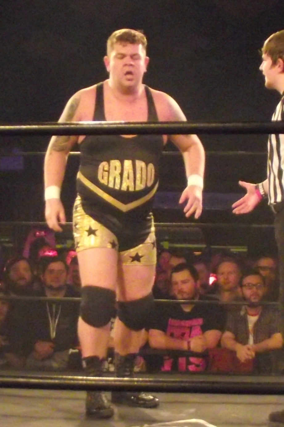 Scottish pro wrestler Grado (Graeme Stevely)